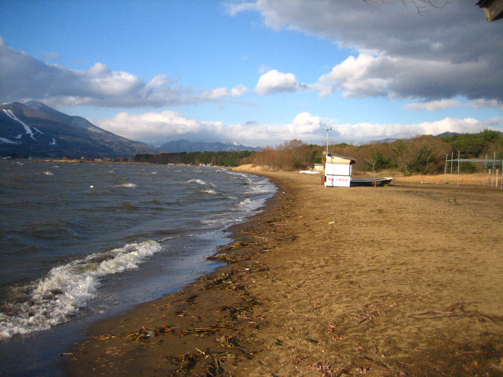 A picture of Tenjinhama at Lake Inawashiro. Picture was taken in Inawashiro, Fukushima Prefecture, Japan with a Canon Power Shot SD450 Digital Elph camera and modified using a Paint Shop program on a laptop computer.